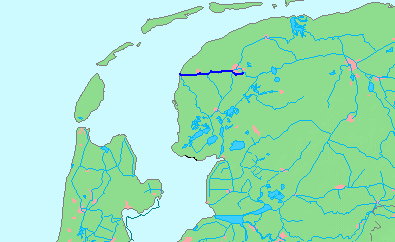 Location of a waterway (river/canal) in the Netherlends